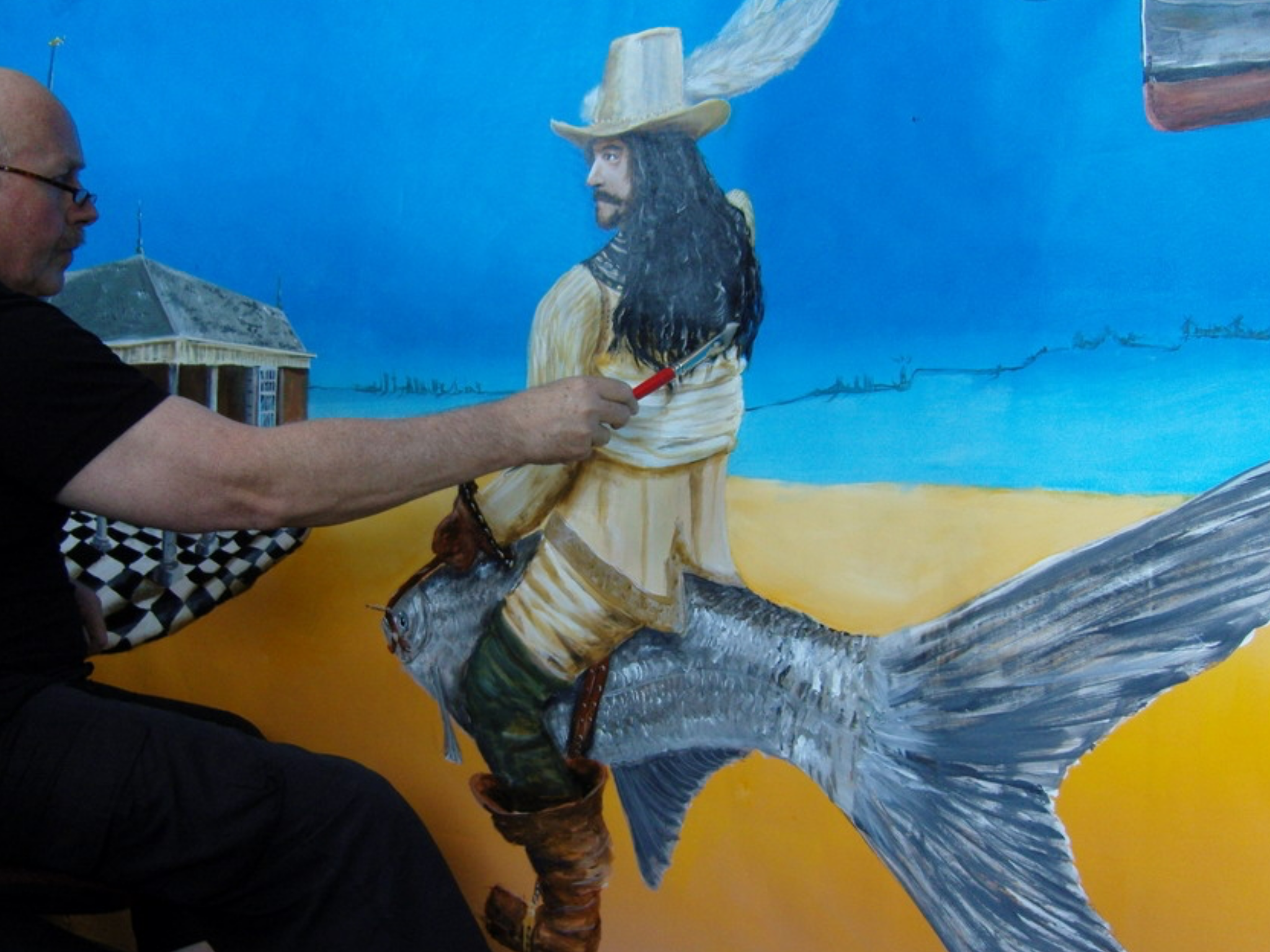 Willem den Broeder paint Willem van Ruytenburgh on sailcloth 180x360cm in 2009 with acryl.